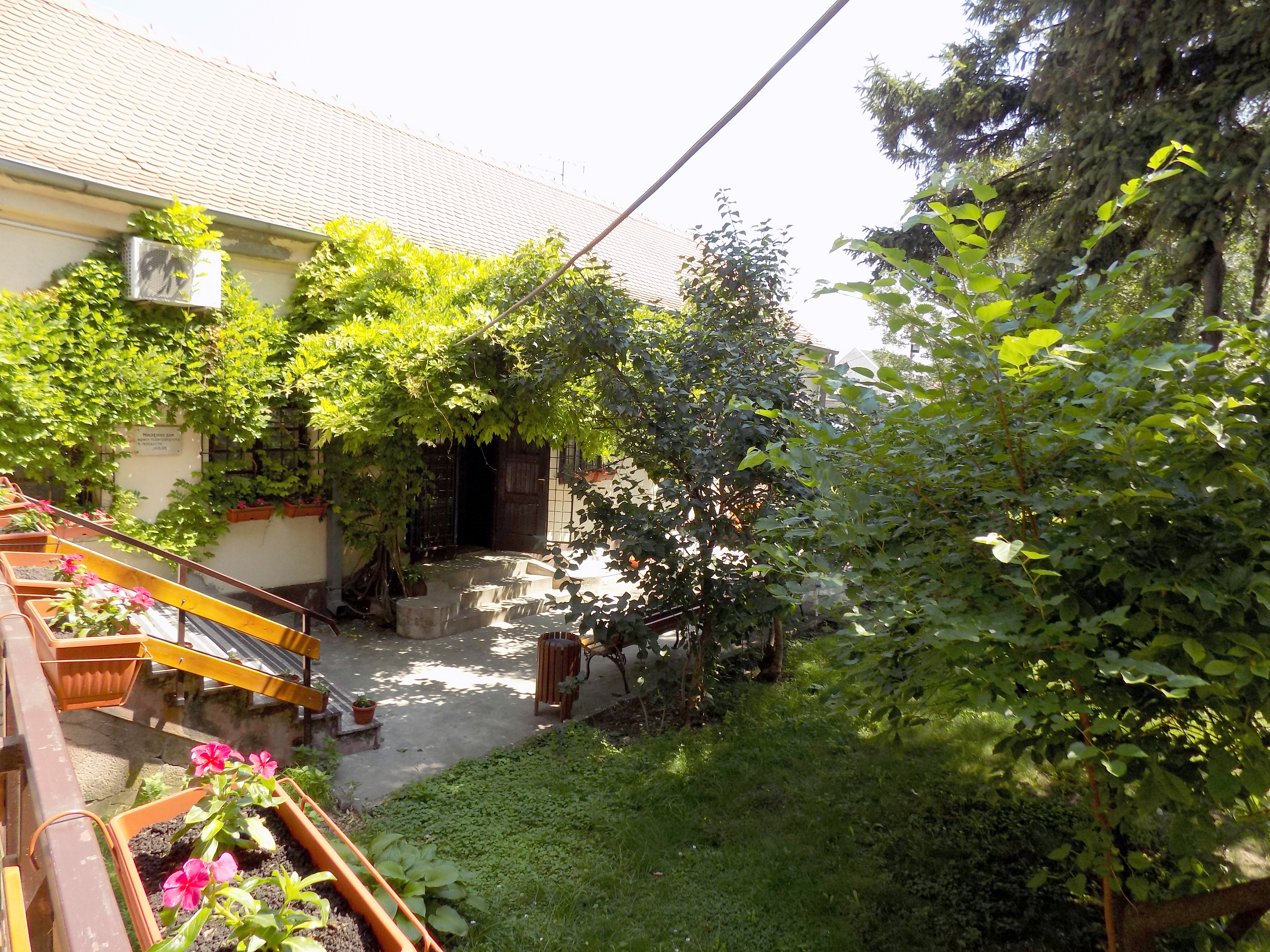 Milena Pavlović-Barili Gallery (Milena's home) - Milena's birth house with a yard, today turned into a Gallery